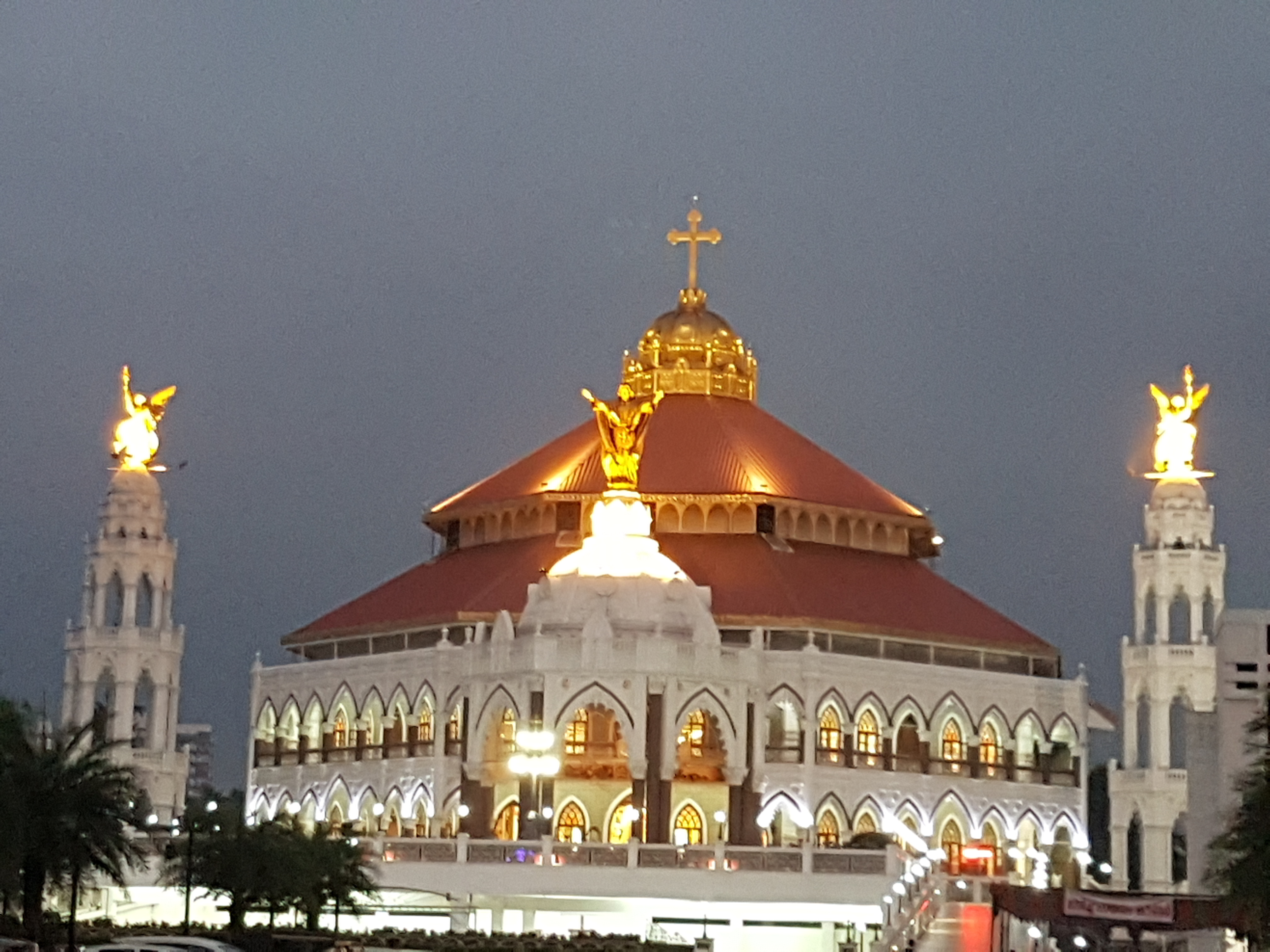 St. George's Church, Edapally